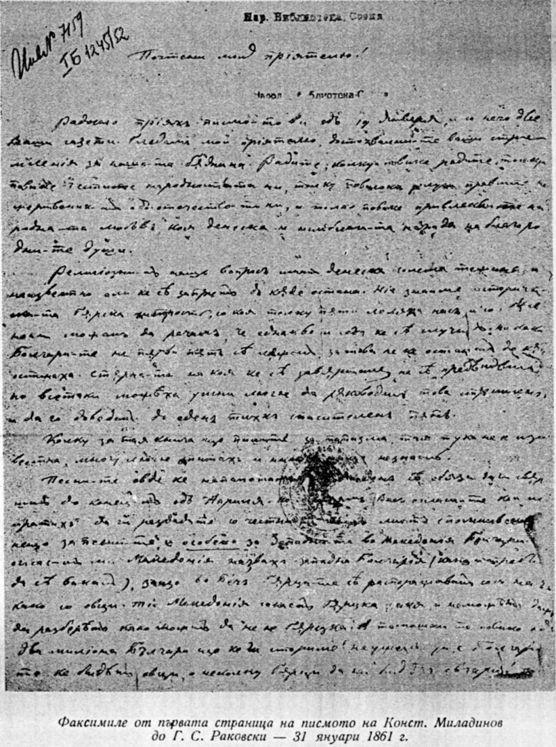 Letter from Constanin Miladinov to Georgi Rakovski-1861